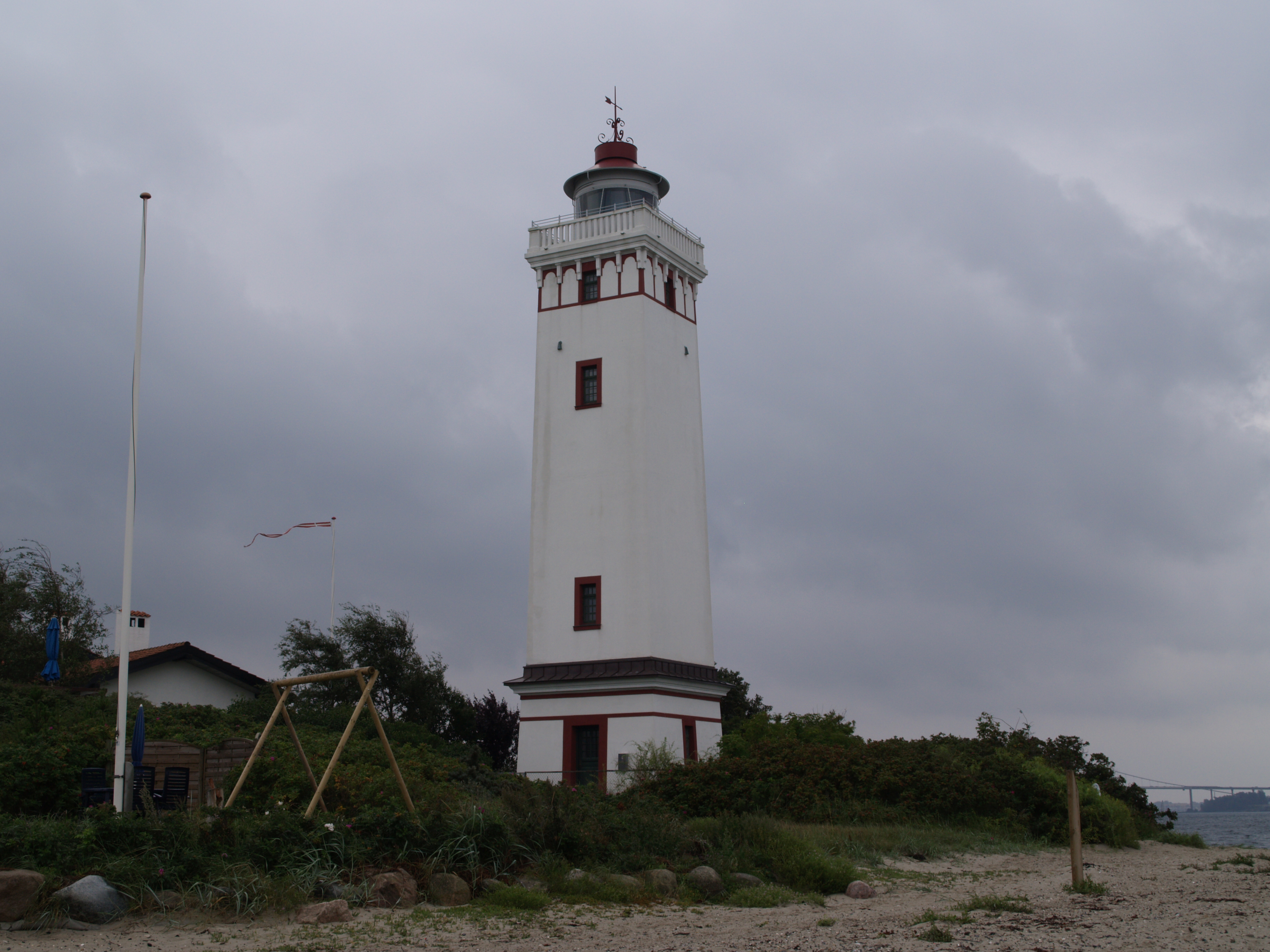 Strib Fyr